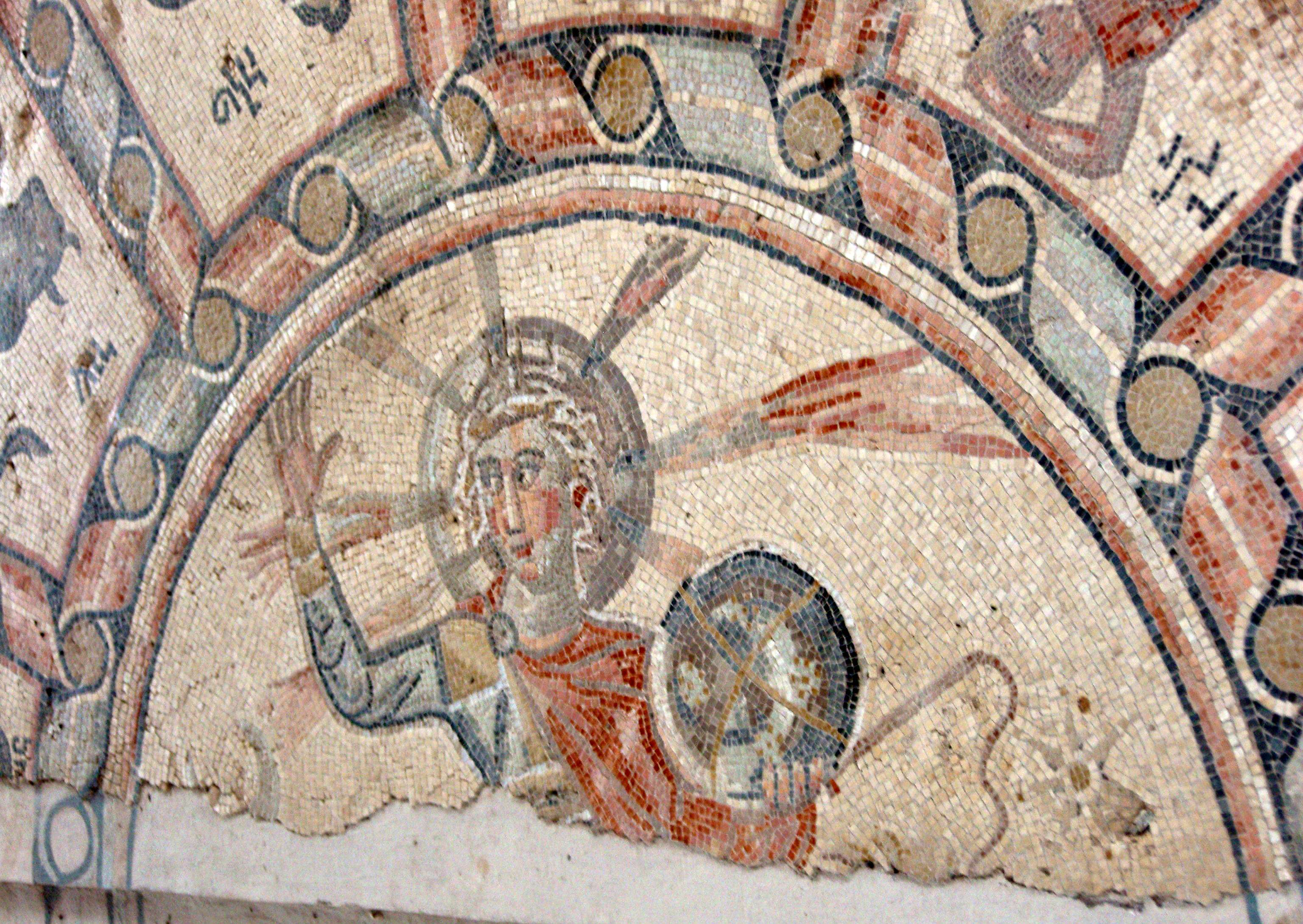 Synagogue in Hamat Tiberias, Israel.